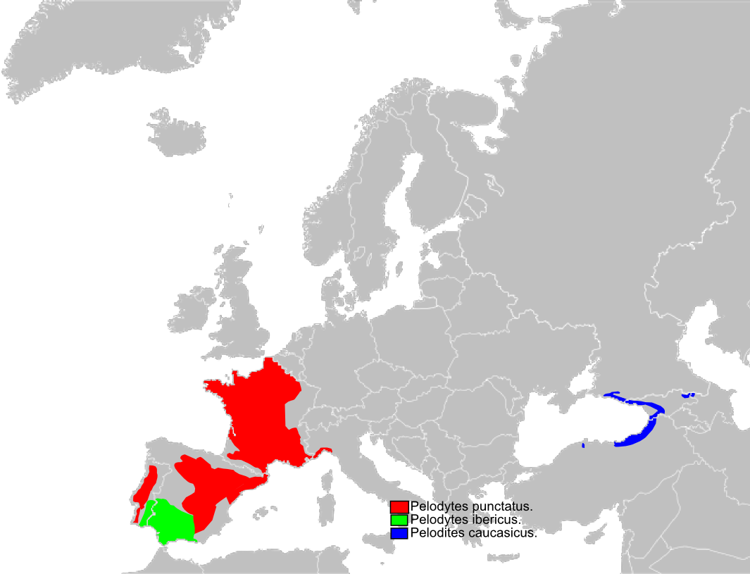 Distribution map of Pelodytes genus.